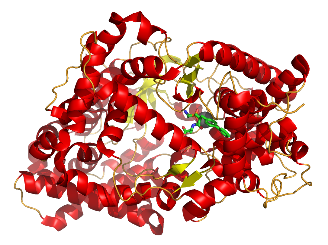 The structure of neprilysin, a zinc metalloprotease involved in the metabolism of extracellular regulatory peptides such as the enkephalins and substance P. Neprilysin in neural tissue is the major protease degrading amyloid beta, a peptide fragment whose abnormal misfolding and aggregation is associated with Alzheimer's disease. The gray sphere represents a zinc atom; the green structure is a zinc-chelating enzyme inhibitor.